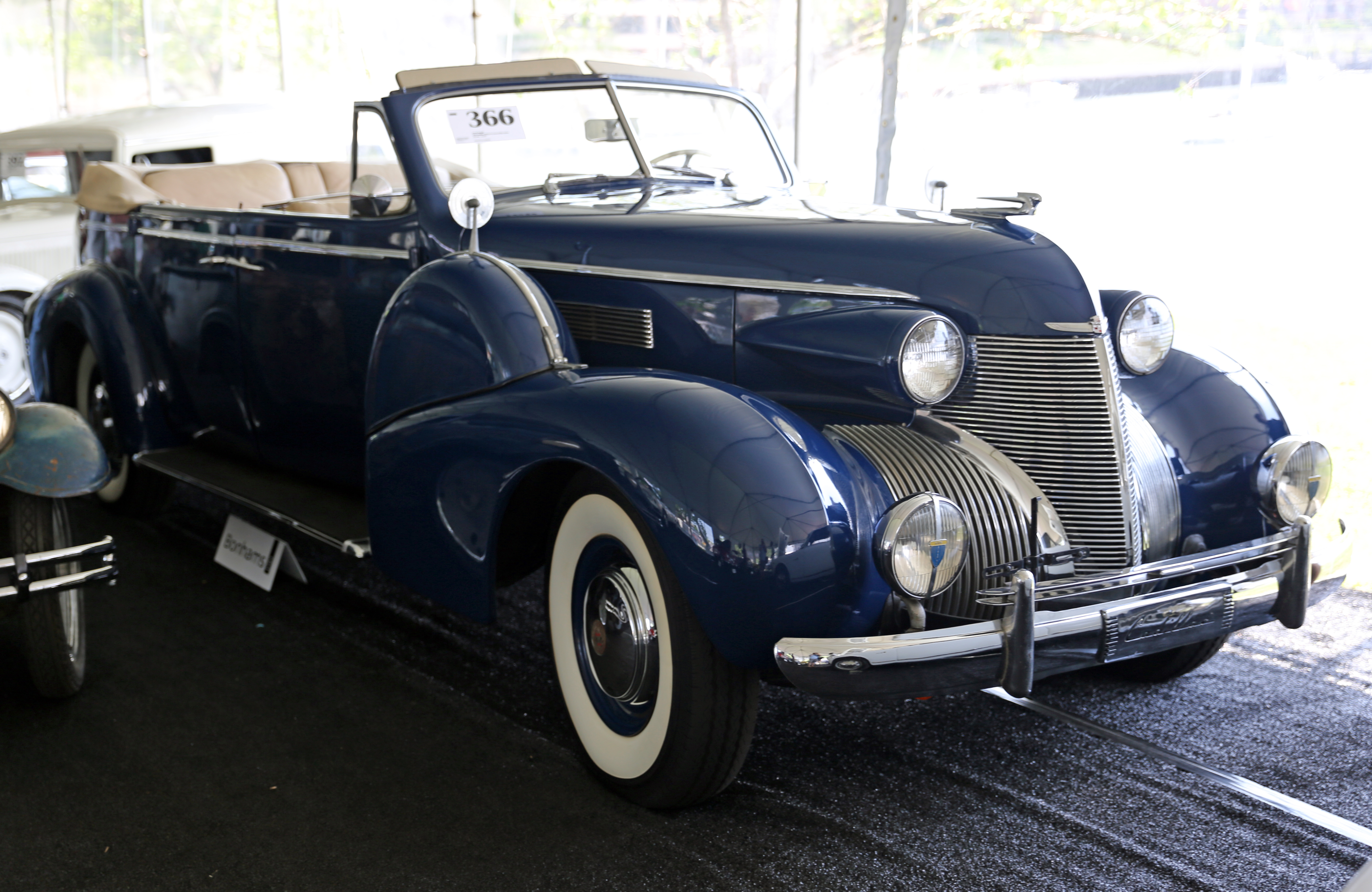 1939 Cadillac Series 75 Convertible Sedan at the Bonhams auction attached to the 2013 Greenwich Concours d'Elegance. Only 36 of this bodystyle (39-7529) were built in 1939.